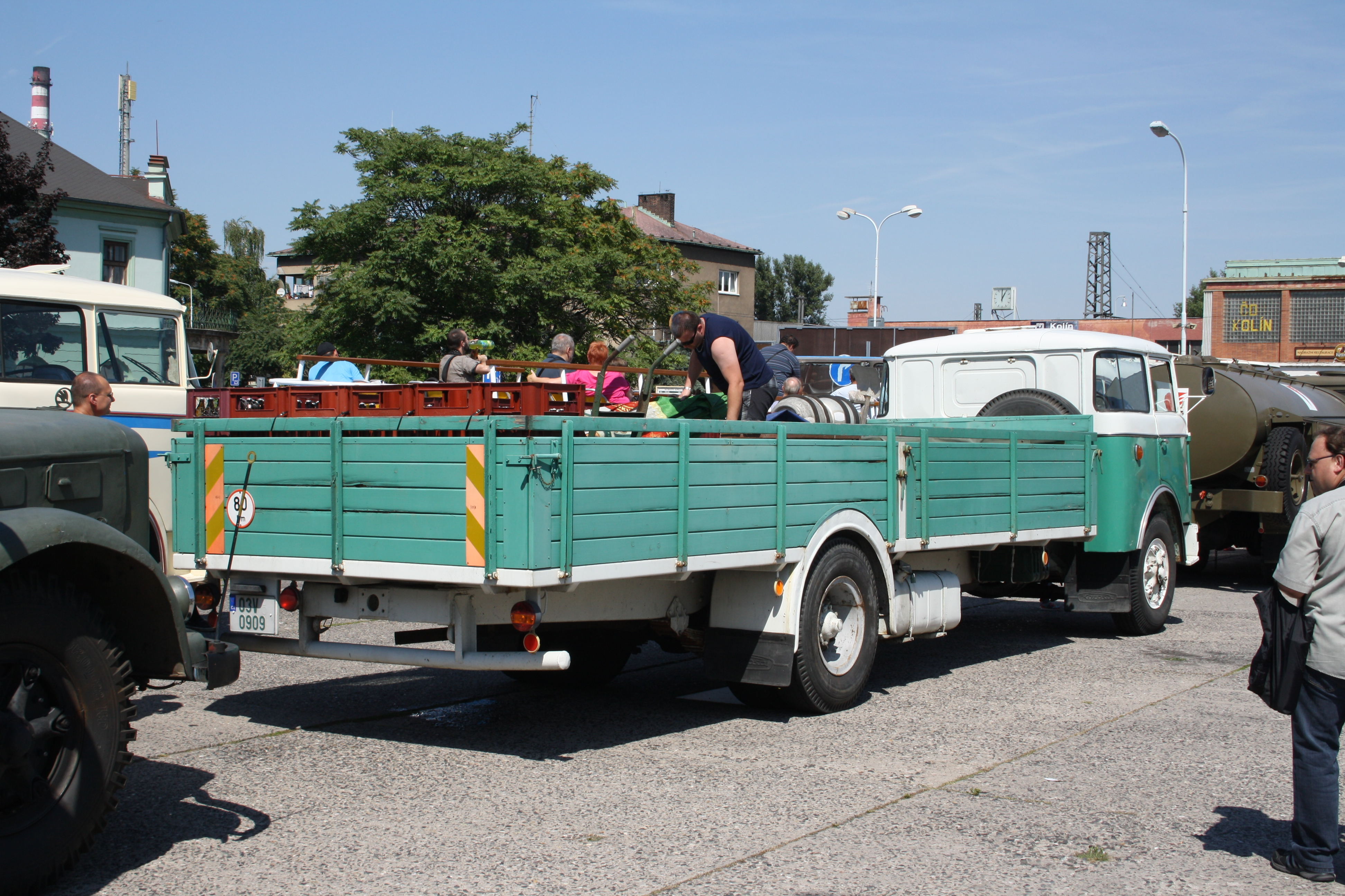 Škoda 706 RT low lorry on Zlatý Bažant 2013 (Kolín, Czech republic)